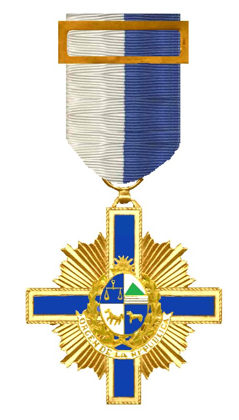 The Order of the Republic, Uruguay